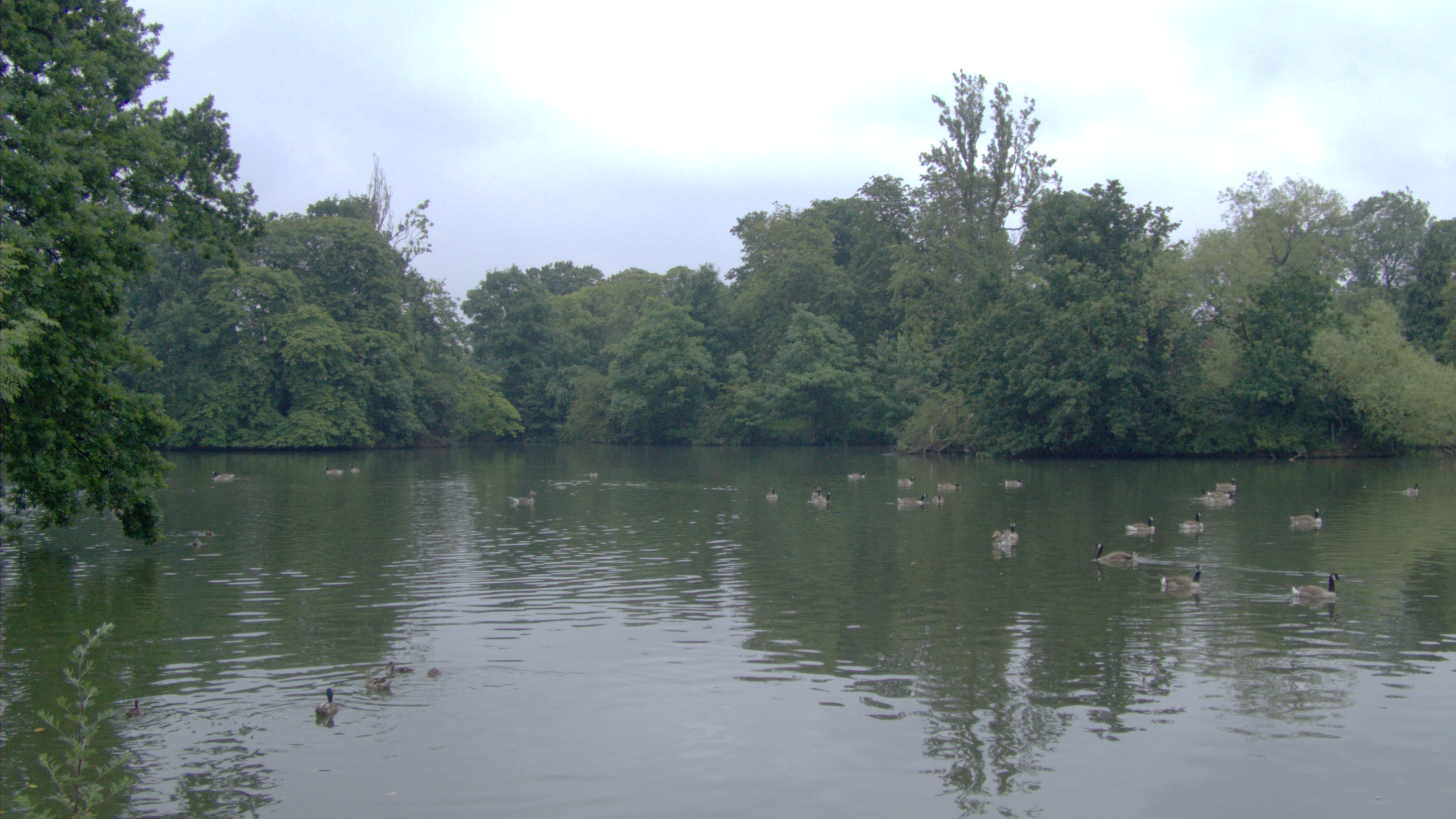 The lake in South Park, Ilford on 21st June, 2012.